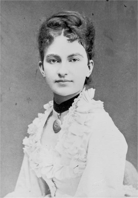 Anna Yesipova (Russian: Анна Николаевна Есипова), sometimes cited as Anna Esipova, Anna Essipova, Annette Essipoff, Annette Essipova, Annette von Essipow) (12 February [O.S. 31 January] 1851, Saint Petersburg - 18 August [O.S. 5 August] 1914, Saint Petersburg) was a prominent Russian pianist, born in St. Petersburg.